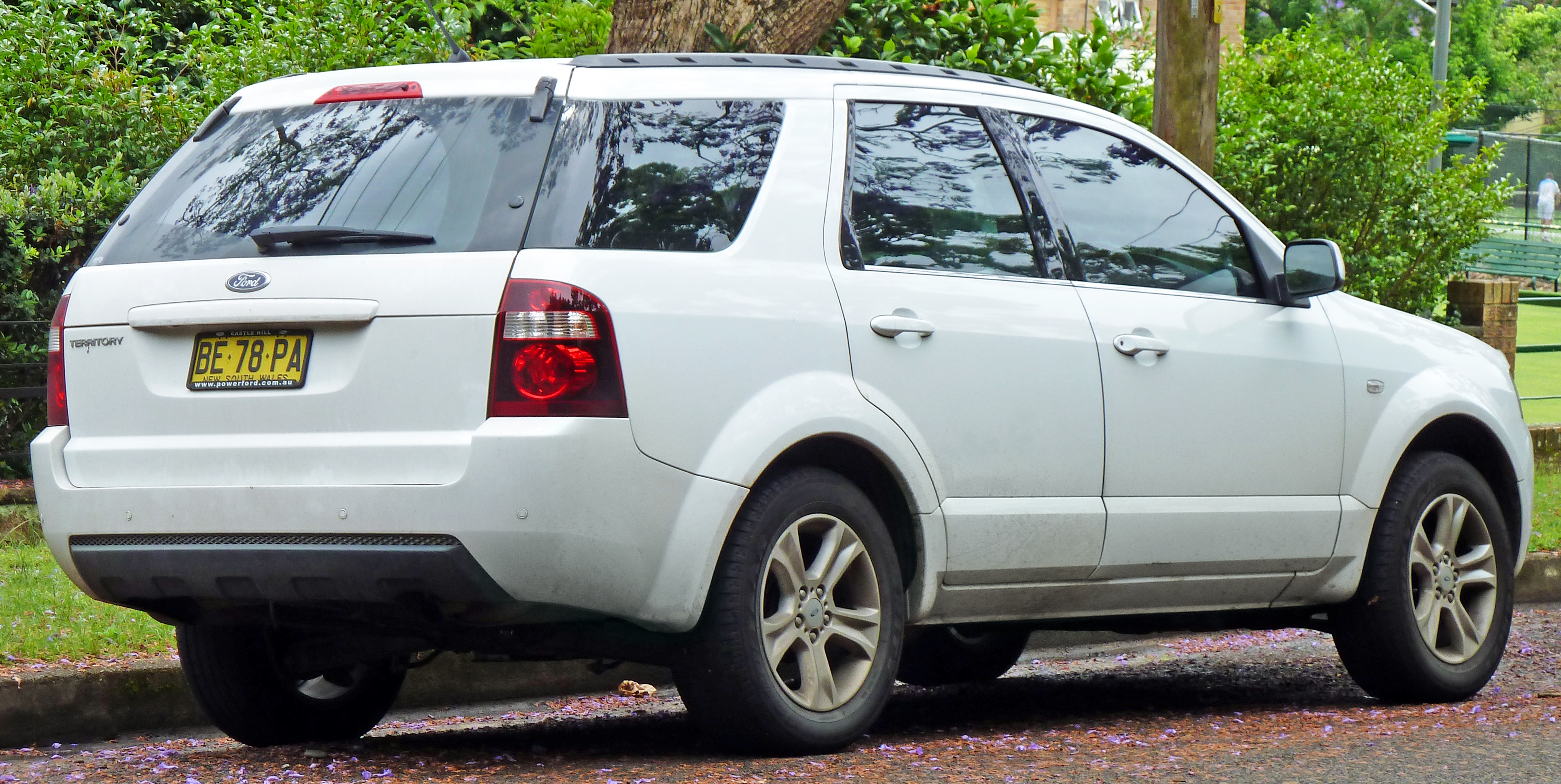 2009–2010 Ford Territory (SY II) TX wagon. Photographed in Killara, New South Wales, Australia.